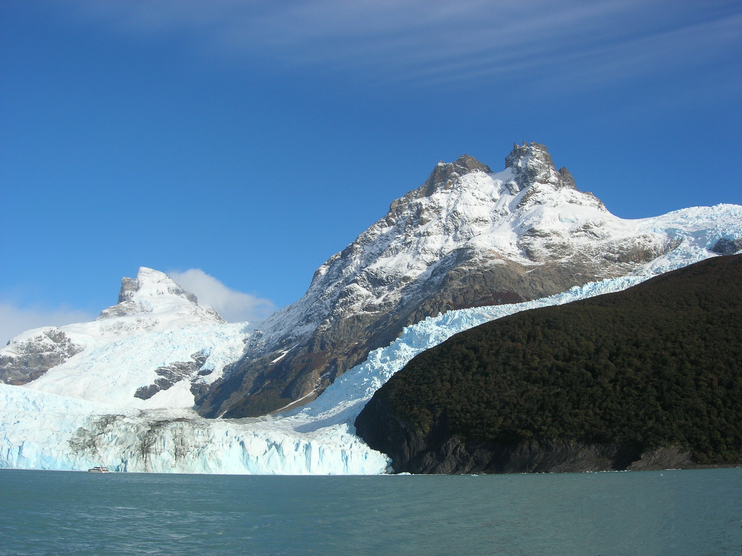 Description =Glacier Spegazzini Argentine Source =Photo taken by Remi Jouan Date =Avril 2006 Author =Remi Jouan